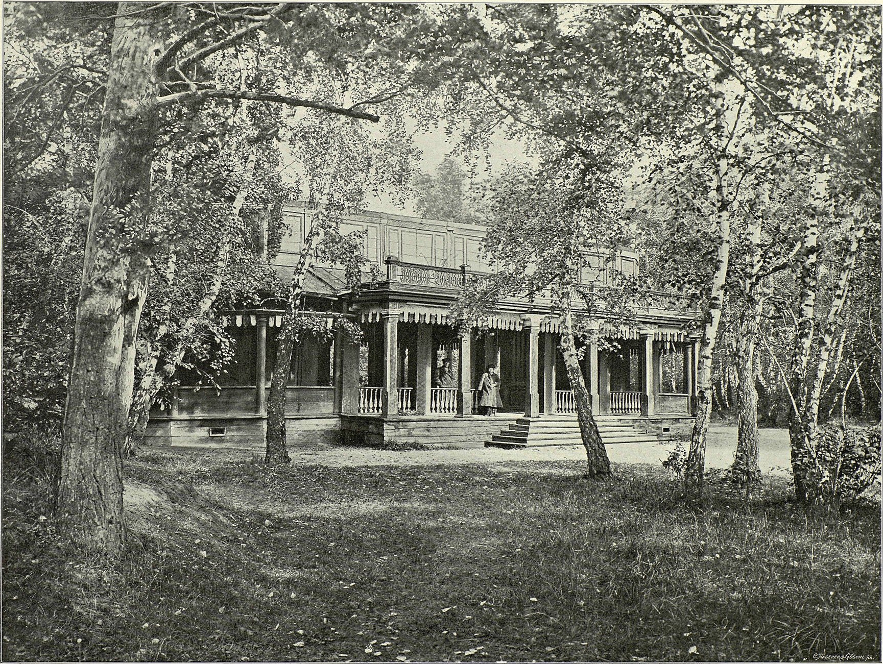 «Great Path - Views of Siberia and Great Siberian Railway» book, 1899